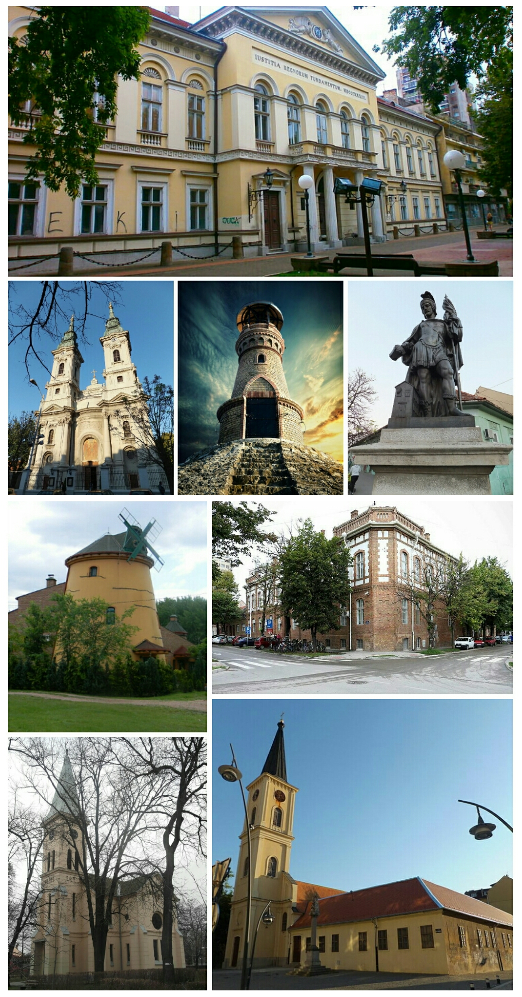 Photoshop- City of Pančevo (National Museum, Serbian orthodox church Assumption of Holy Virgin, One of two lighthouses in a spot where Tamis flowes into Danube, Saint Florian Statue, Windmill-restaurant, High School "Nikola Tesla" Pančevo, Slovak Evangelical church, Roman catholic church)